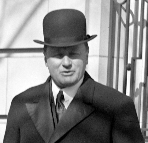 Wollmar Boström, the Swedish minister in Washington